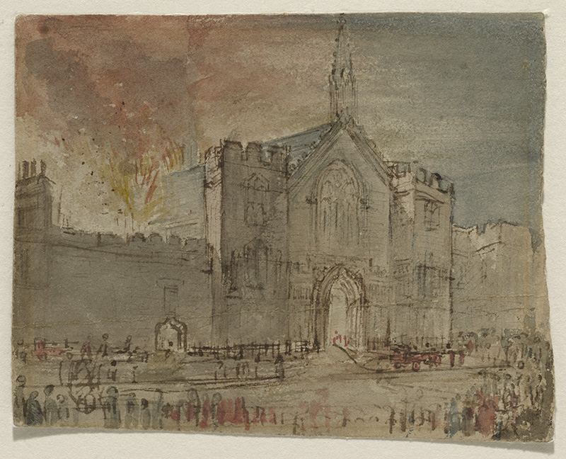 Fire Sketch by John Constable, drawn on 16 October 1834, while the Old Palace of Westminster burned